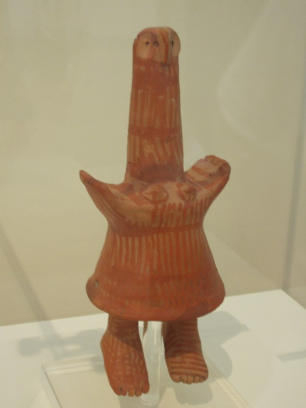 Bell-shaped clay female figure with moveable legs. Thebes (Beotia, Greece), 7th century B.C. . Model at the National Archaeological Museum in Athens. Photo by Matthew Mayer.